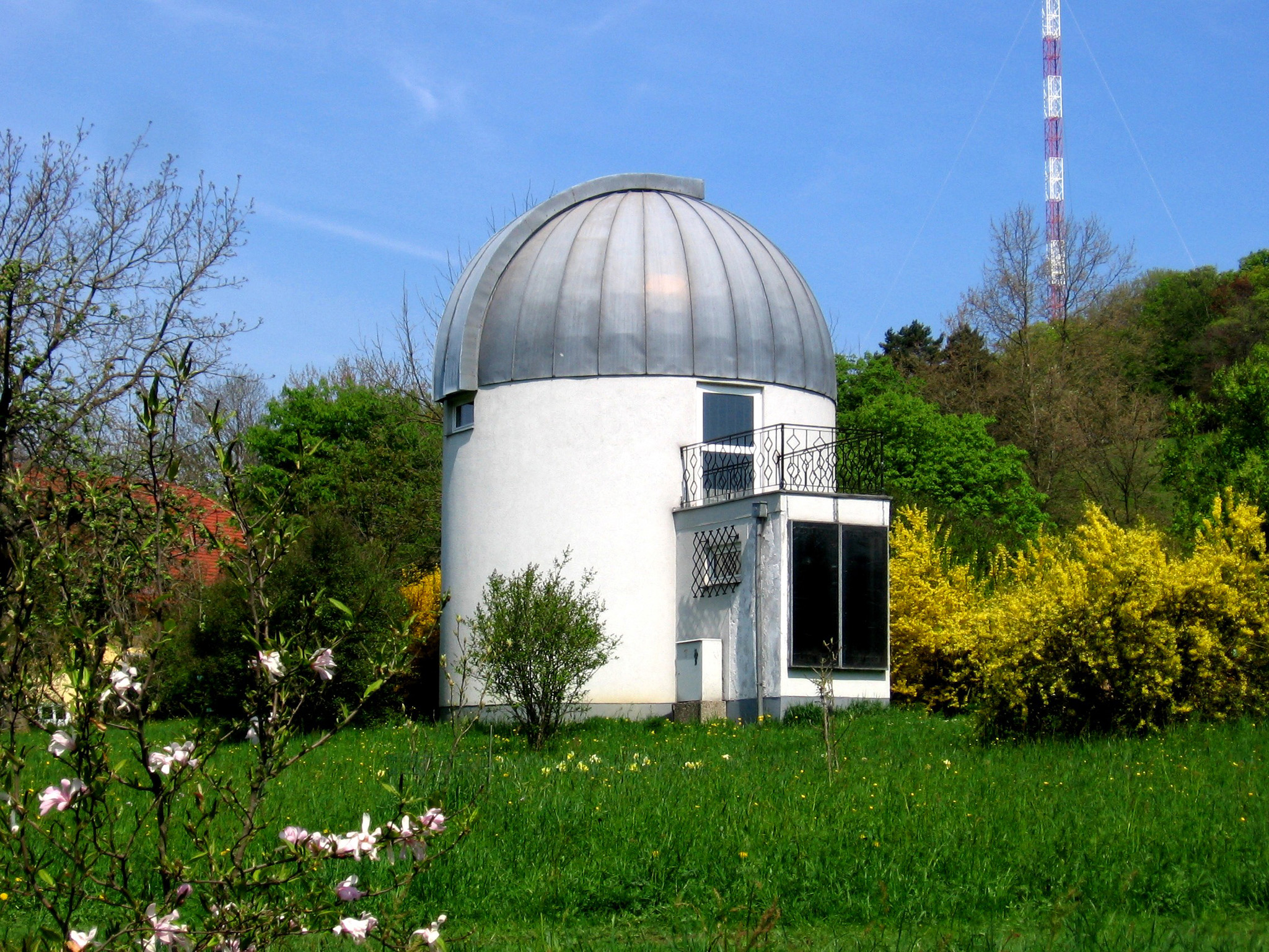 The public Johannes-Kepler-Observatory in Linz, Austria.